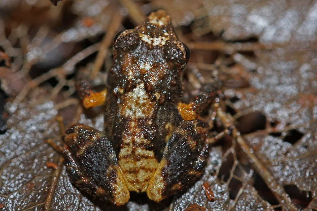 Found in amongst rotting logs during a climb of El Yunque, Guantanamo. I found 3 quite different looking frogs during this climb, but after a bit of home research I think they are all this one species. From what I've read, this species displays quite a wide range of colour variation and this identification is a best guess for the locality and general description. If you think it could be something else, please let me know.